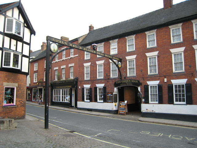 Green Man & Black's Head Royal Hotel The splendid sign for this ancient coaching inn spans the main street in the middle of Ashbourne.